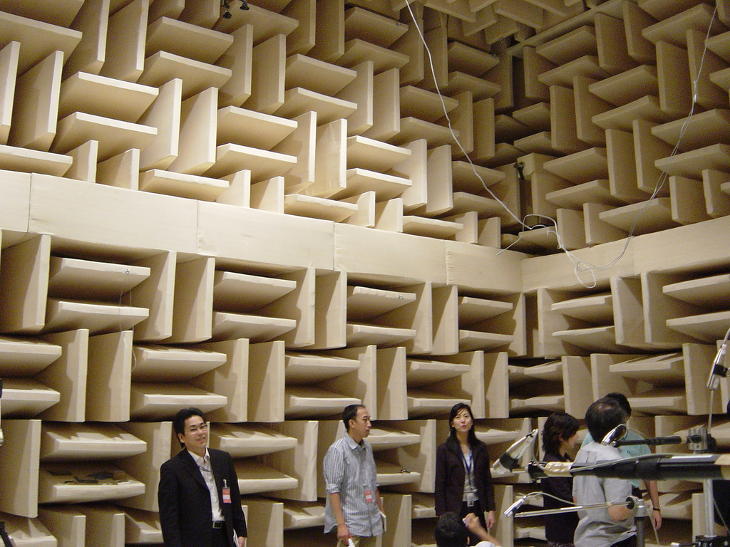 Yamato IBM research centre